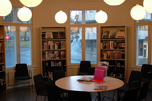 academy.jpg